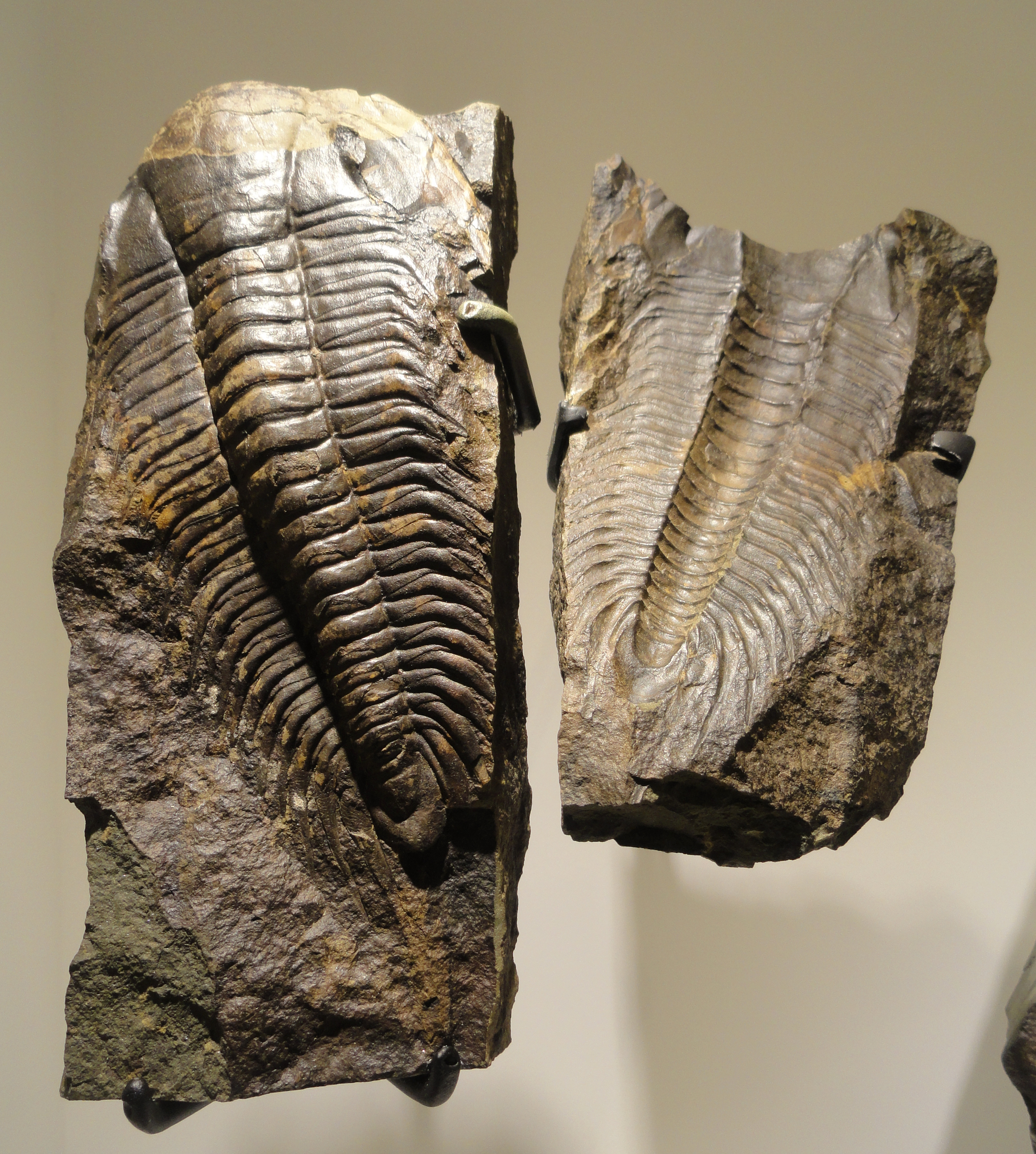 Exhibit in the Houston Museum of Natural Science, Houston, Texas, USA.